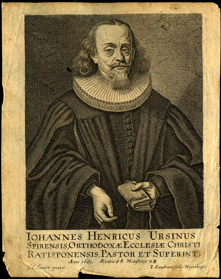 Copper engraving depicting Johann Heinrich Ursin (1608-1667), scholar, author, pastor and dean at Regensburg